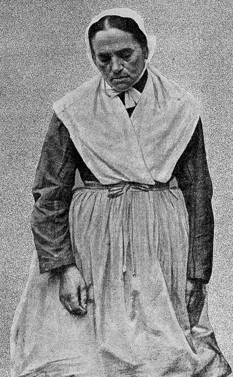 'Melancolie anxieuse' illustration. General Collections Keywords: Melancholia; Mental Disorder; mental maladie; Depressive Disorder; Mental Disorders; H. Dagonet